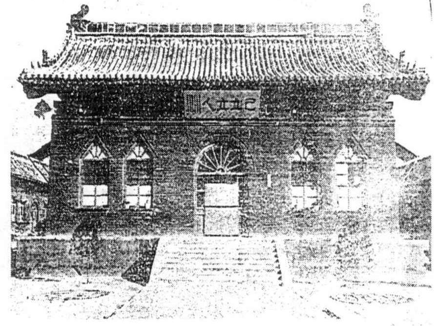 Office, Bingzhou College